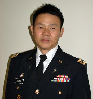 Xiong Yan